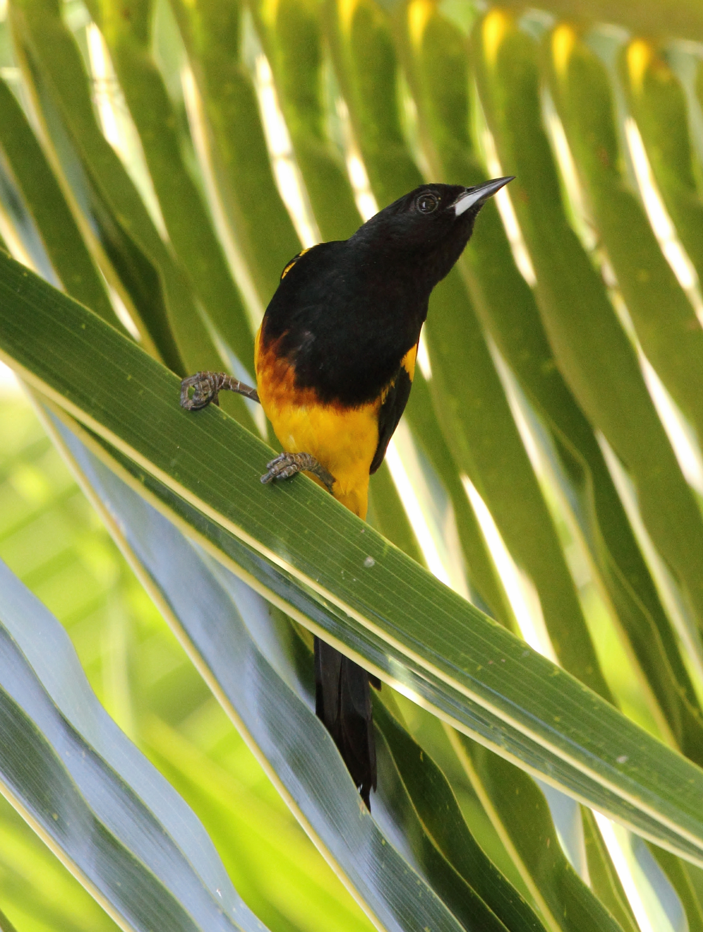 Black-cowled Oriole (Icterus prosthemelas)